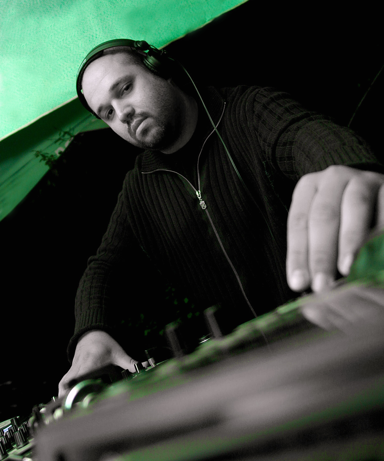 DJ Balthazar, see Deep Zone Project